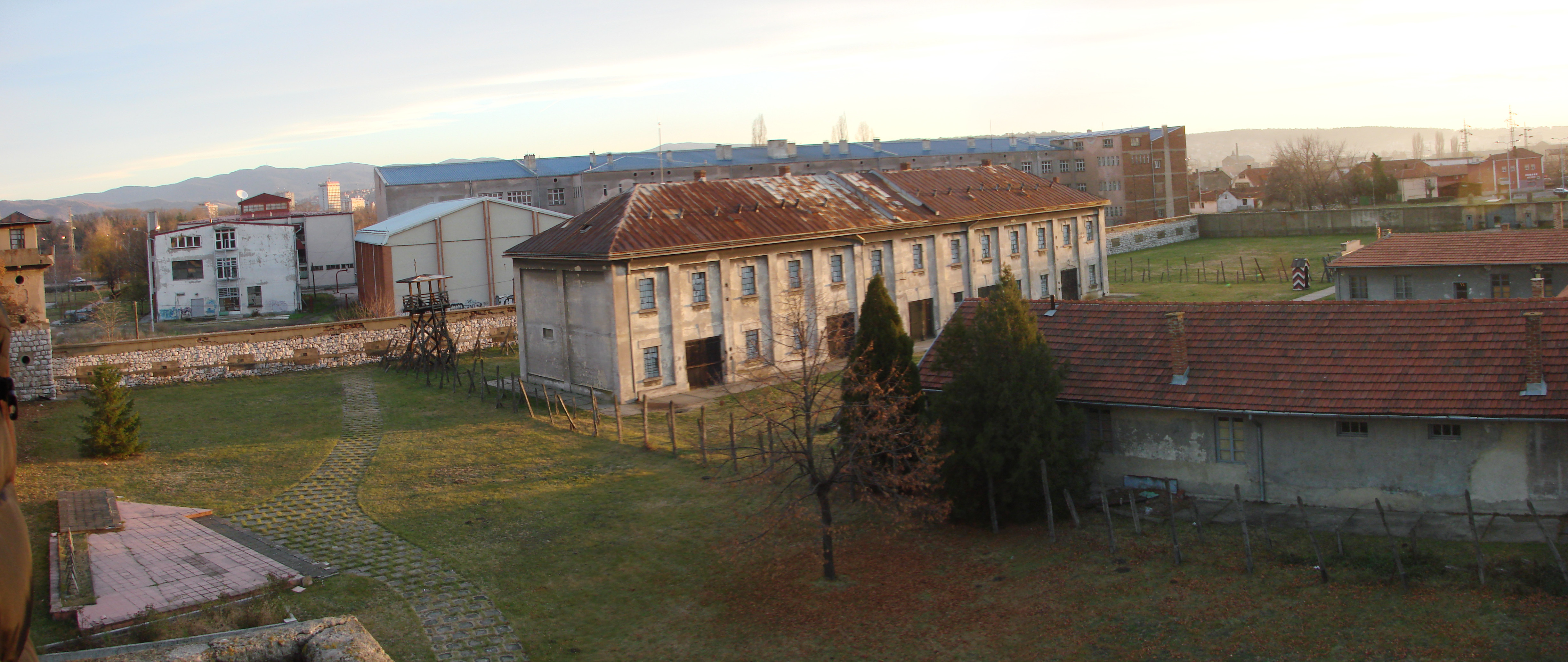 Niš concentration camp (Serbia) in November '08